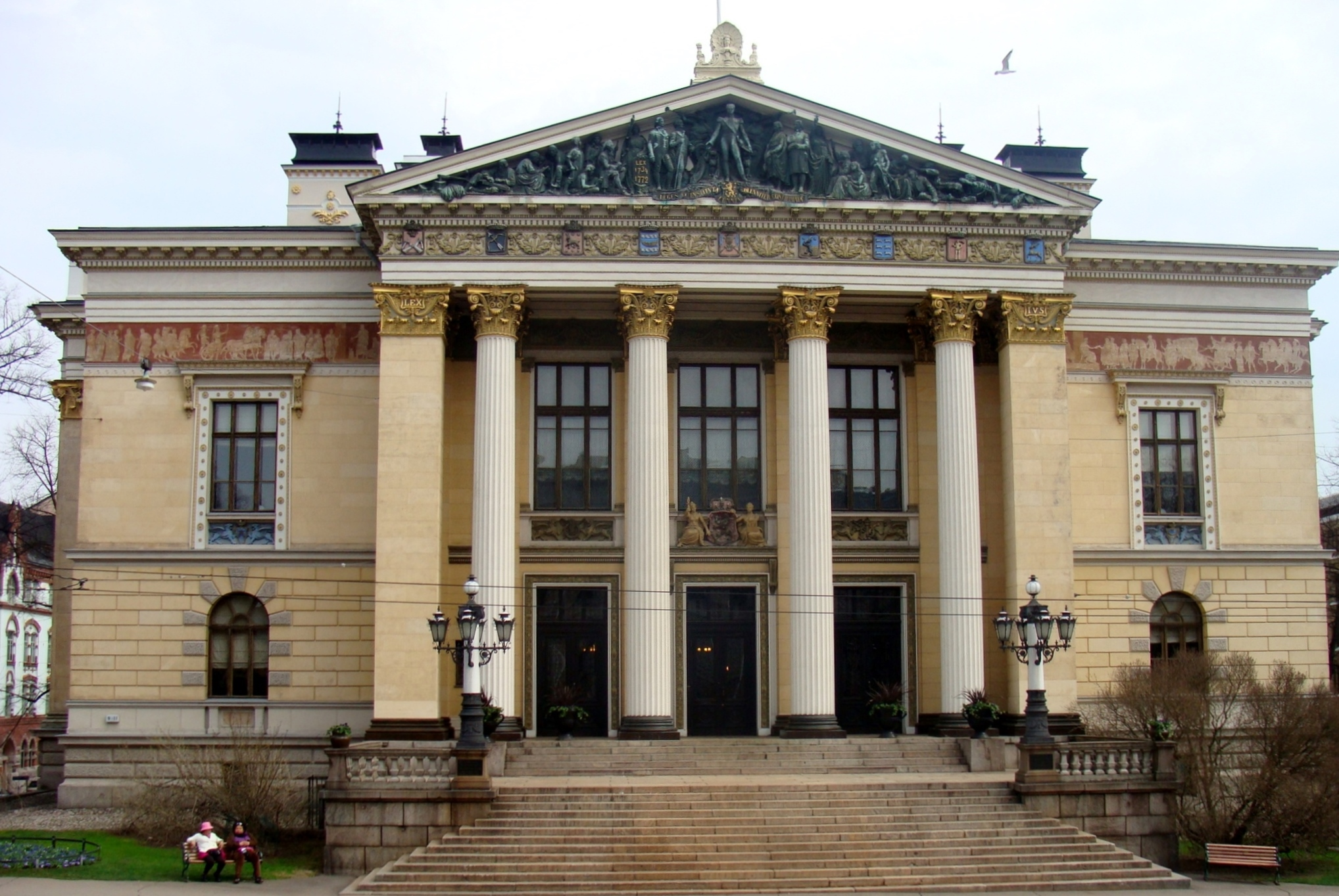 House of the Estates in Helsinki, Finland